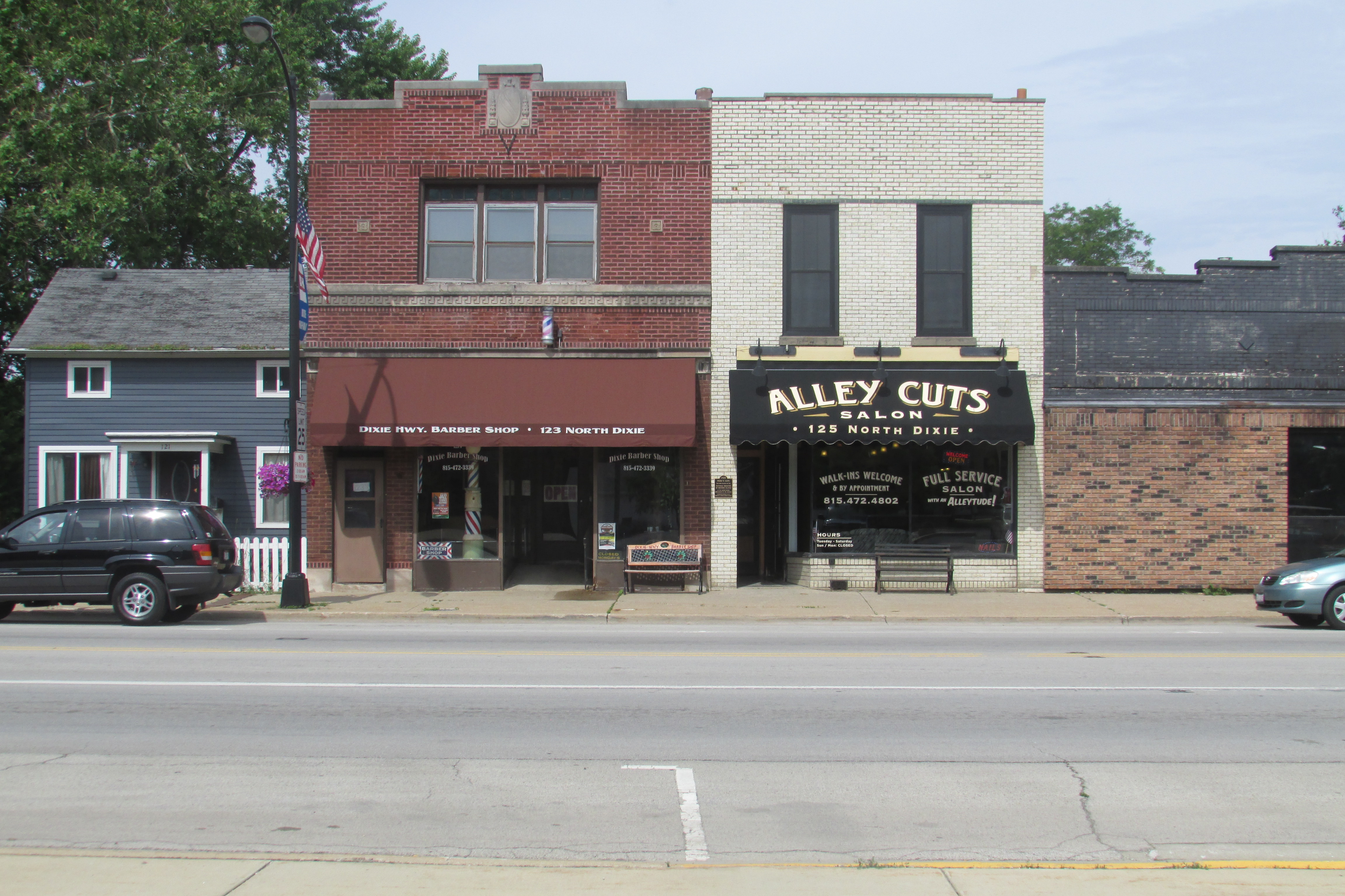 Park's Cafe, 125 No Dixie Highway, Momence, Illinois.